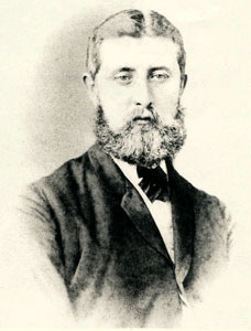 Photograph of John Wallis Titt (1841-1910)